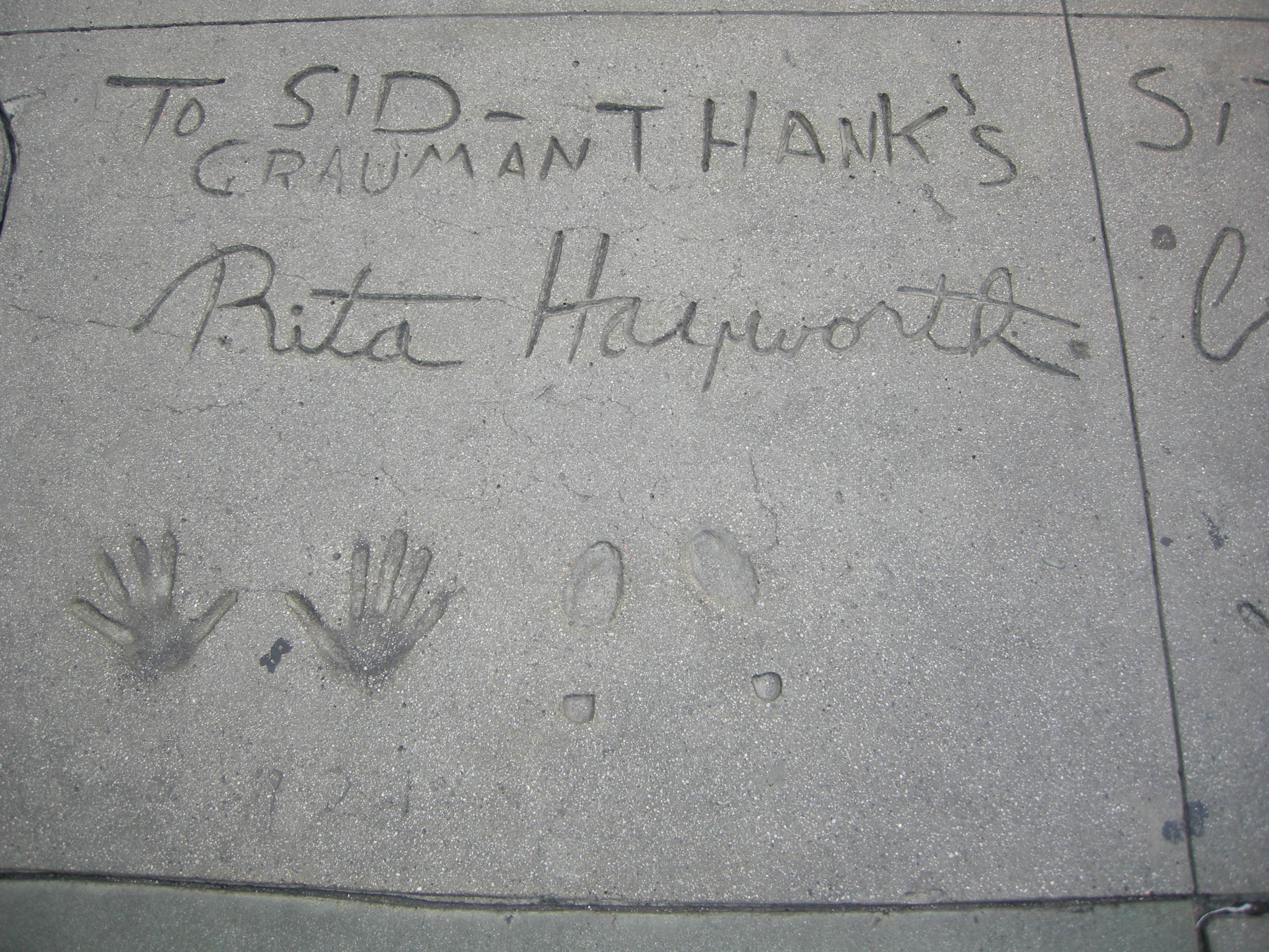 Grauman's Chinese Theatre, rita hayworth